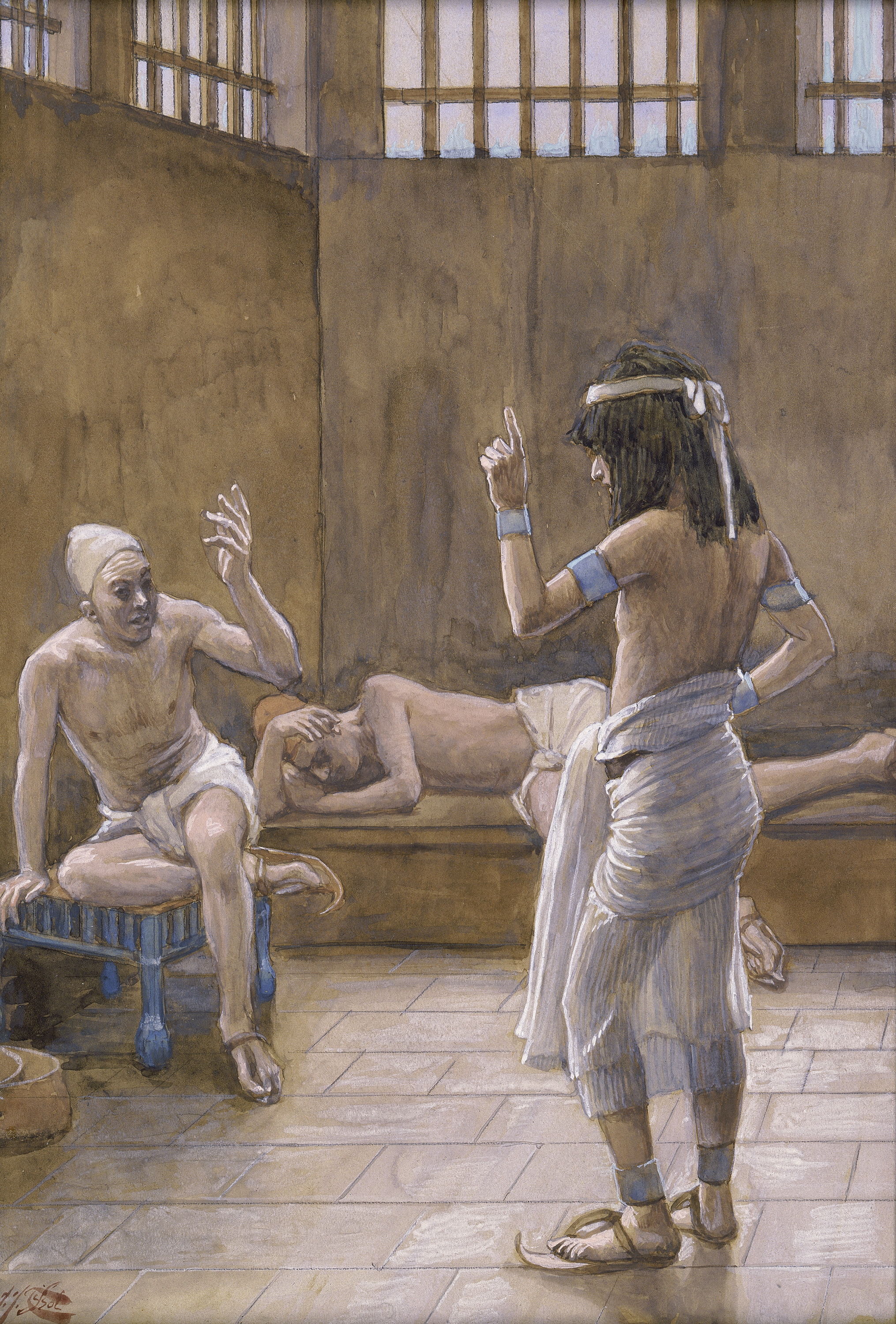 Joseph Interprets the Dreams While in Prison, c. 1896-1902, by James Jacques Joseph Tissot (French, 1836-1902), gouache on board, 9 1/4 x 6 1/4 in. (23.6 x 15.9 cm), at the Jewish Museum, New York